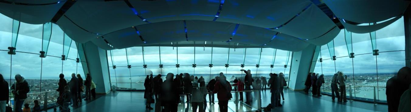 Spinnaker Tower 1st Floor Panorama